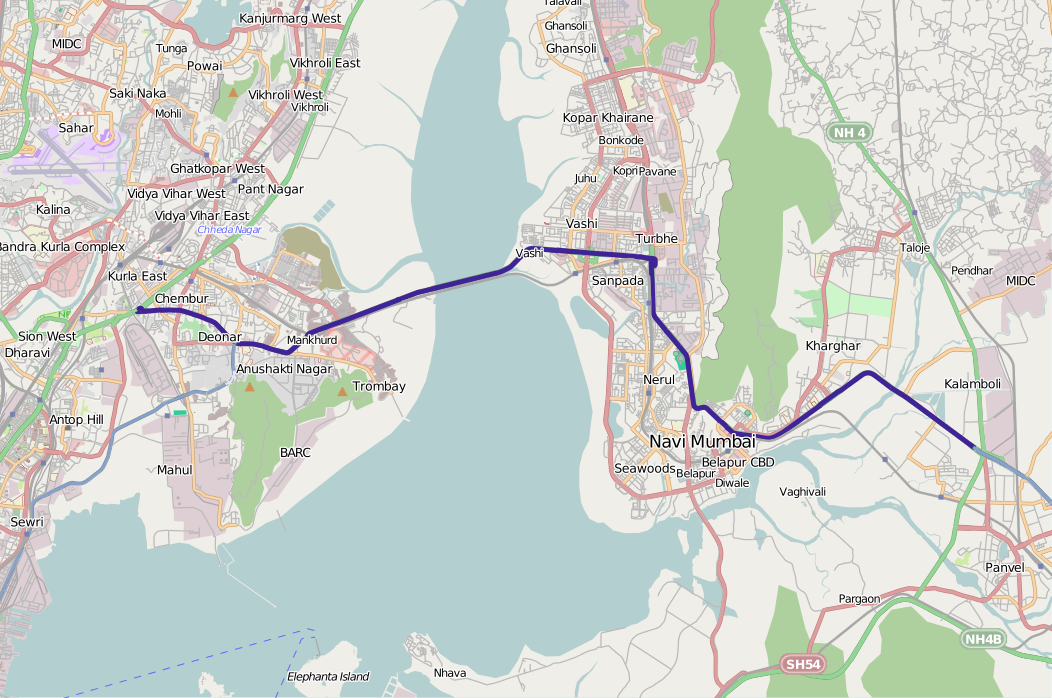 Map of Sion-Panvel highway in Mumbai region